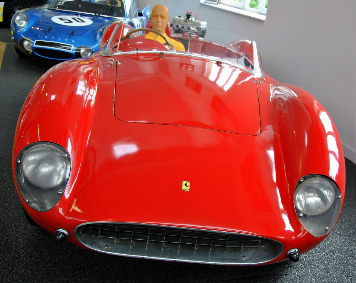 1957 Ferrari 500 TRC Testa Rossa Competizione (0692 MDTR) at the Musée Matra in Romorantins, France. It has a 1,985cc inline-four with 190PS at 7000rpm, enough for a 245km/h top speed. This car, one of seventeen built, was originally purchased by Adrian Conan Doyle - son of the creator of Sherlock Holmes. It has bodywork by Scaglietti and was on loan from the Schlumpf collection. It was raced by Jo Siffert and Liebl in the 1000km Nürburgring race, where it finished 15th.